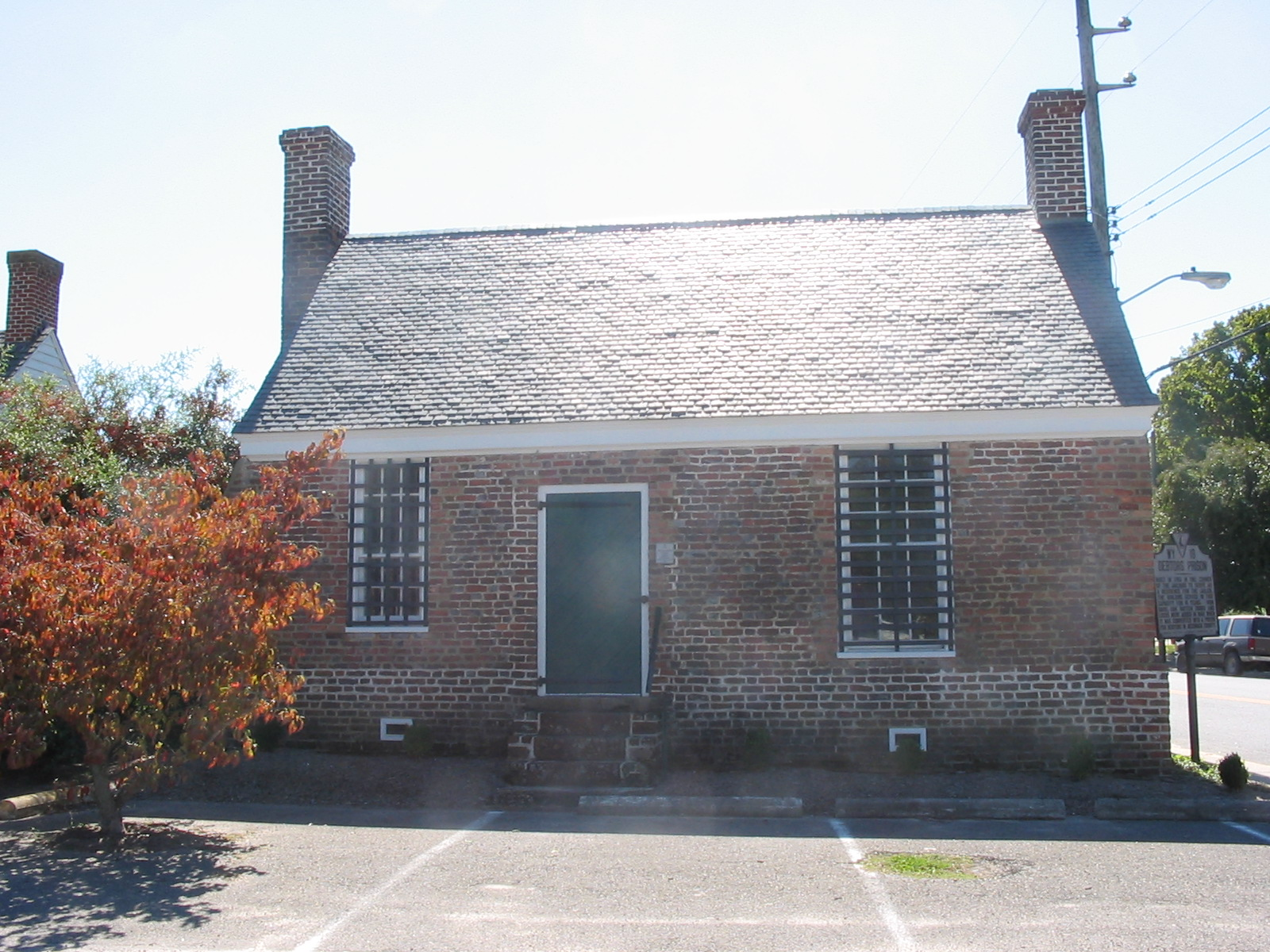 Accomac Debtors' Prison. Image taken by me for Wikipedia